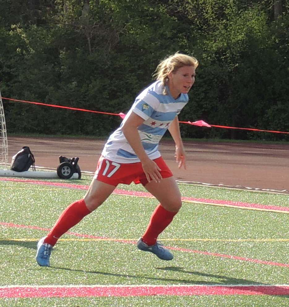 2015-05-02 Lori Chalupny in Sky Blue at Red Stars